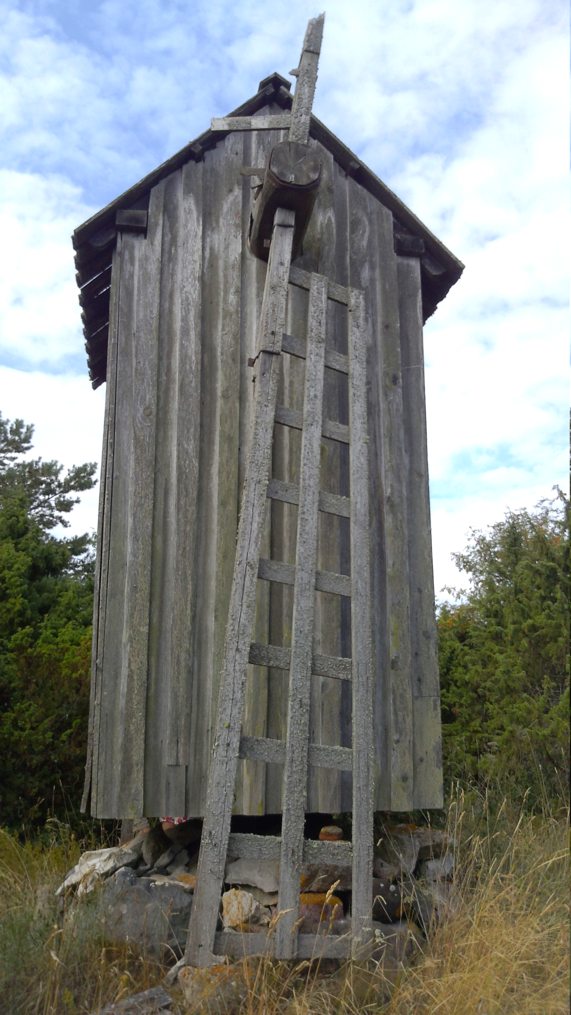 Hanikatsi windmill. August 10, 2014. Hanikatsi island, Hiiu county, Estonia, Europe.